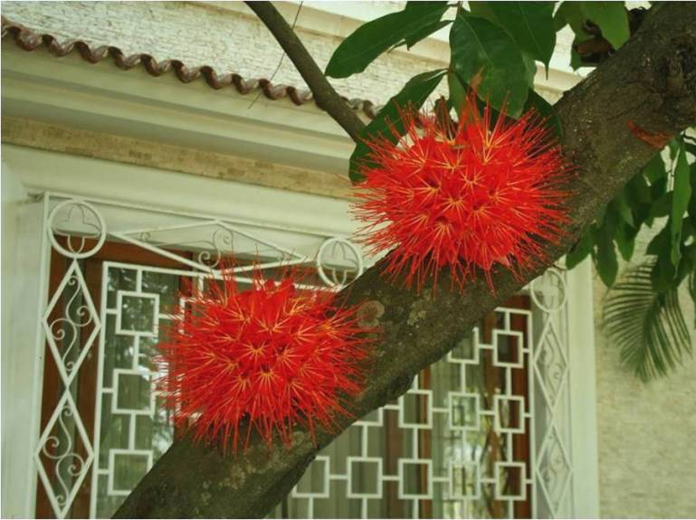 Flowering Brownea macrophylla in Caracas, Venezuela